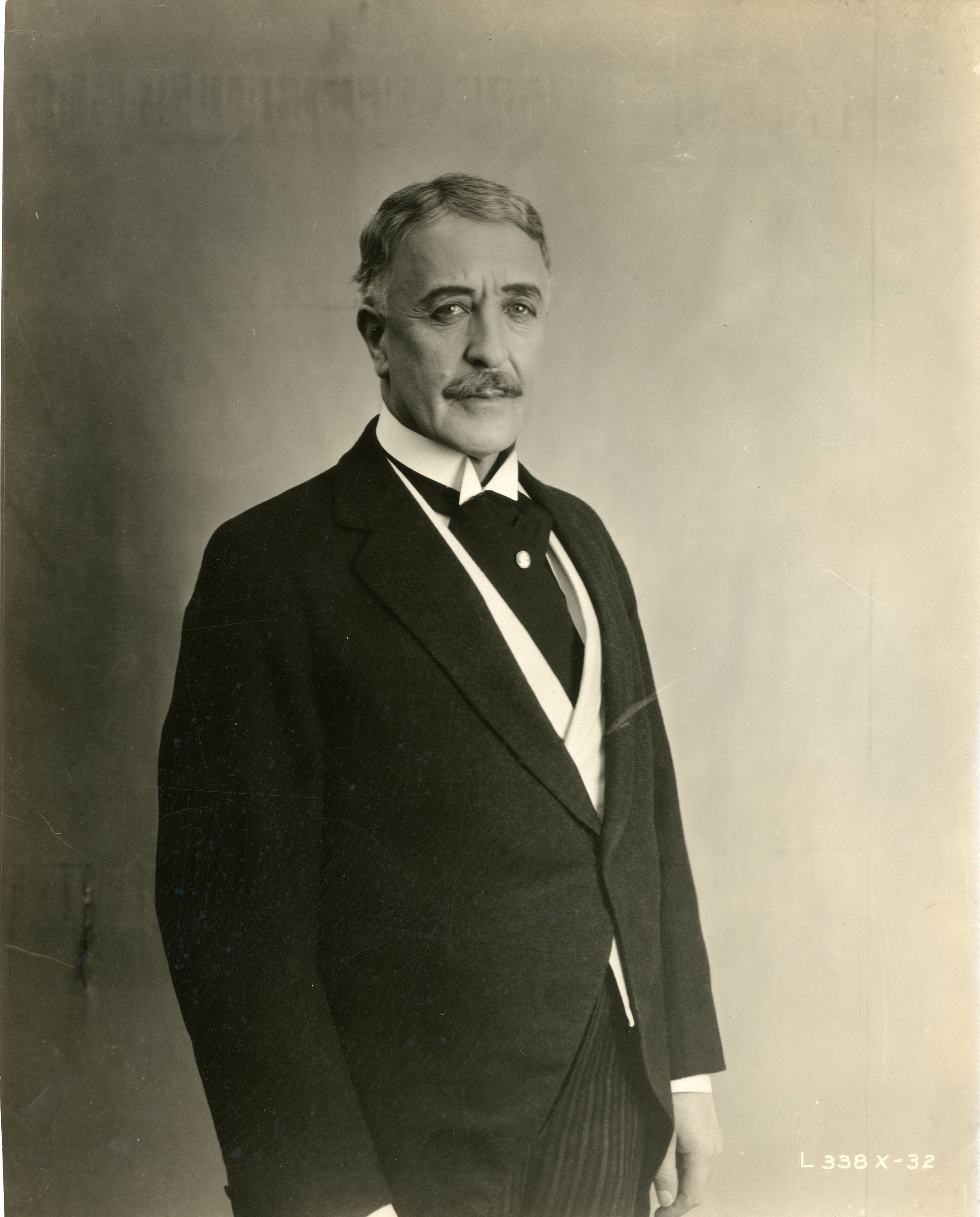 Silent film actor Winter Hall. Subjects: actors